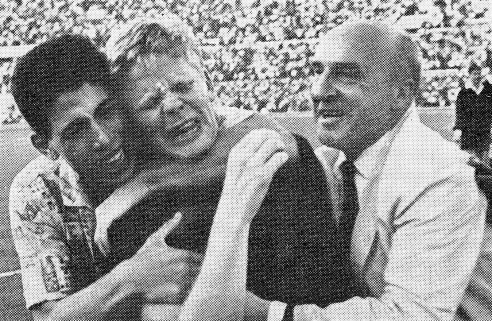 Rome (Italy), Olympic Stadium, June 7, 1964. Bologna F.C. — F.C. Internazionale 2-0, Italian League 1963–64 Serie A, Championship tie-breaker. From left to right: a fan, the footballer Helmut Haller and the coach Fulvio Bernardini celebrate Bologna's title at the end of the victorious match.